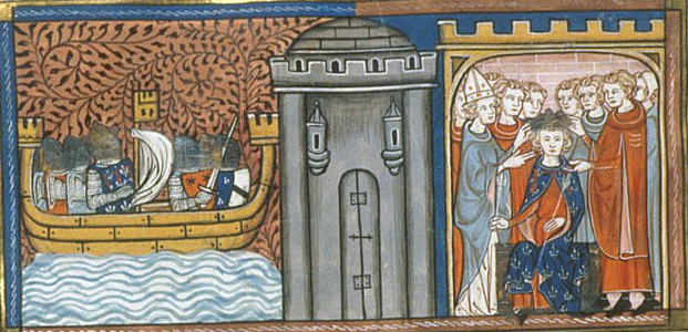 Charles I of Anjou sailing for Rome and the Pope crowning him. (British Library, Royal 16 G VI f. 429v)